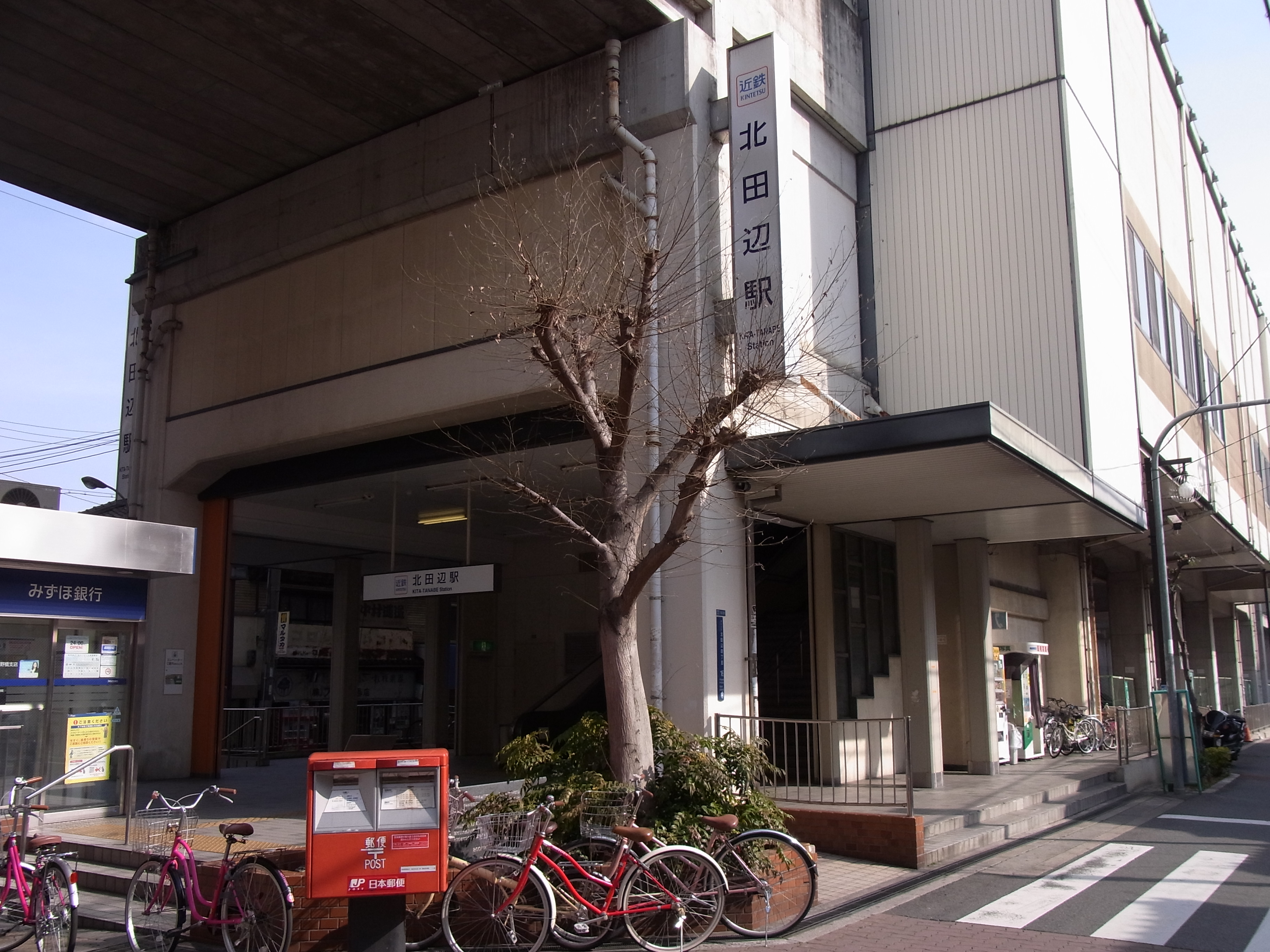 Kita-Tanabe Station in Higashi-Sumiyoshi Ward, Osaka